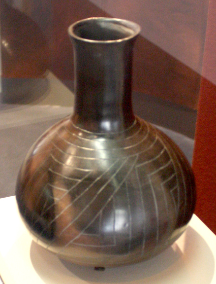 Incised ceramic olla by Jereldine Redcorn (Caddo-Potawatomi), 2005, collection of the Oklahoma History Center